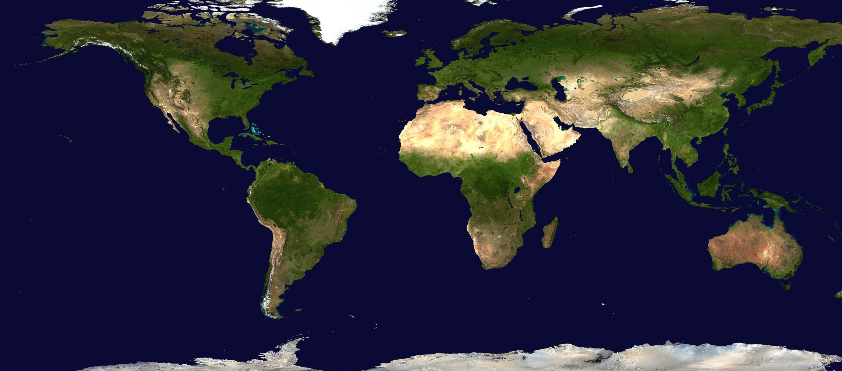 Map of the world